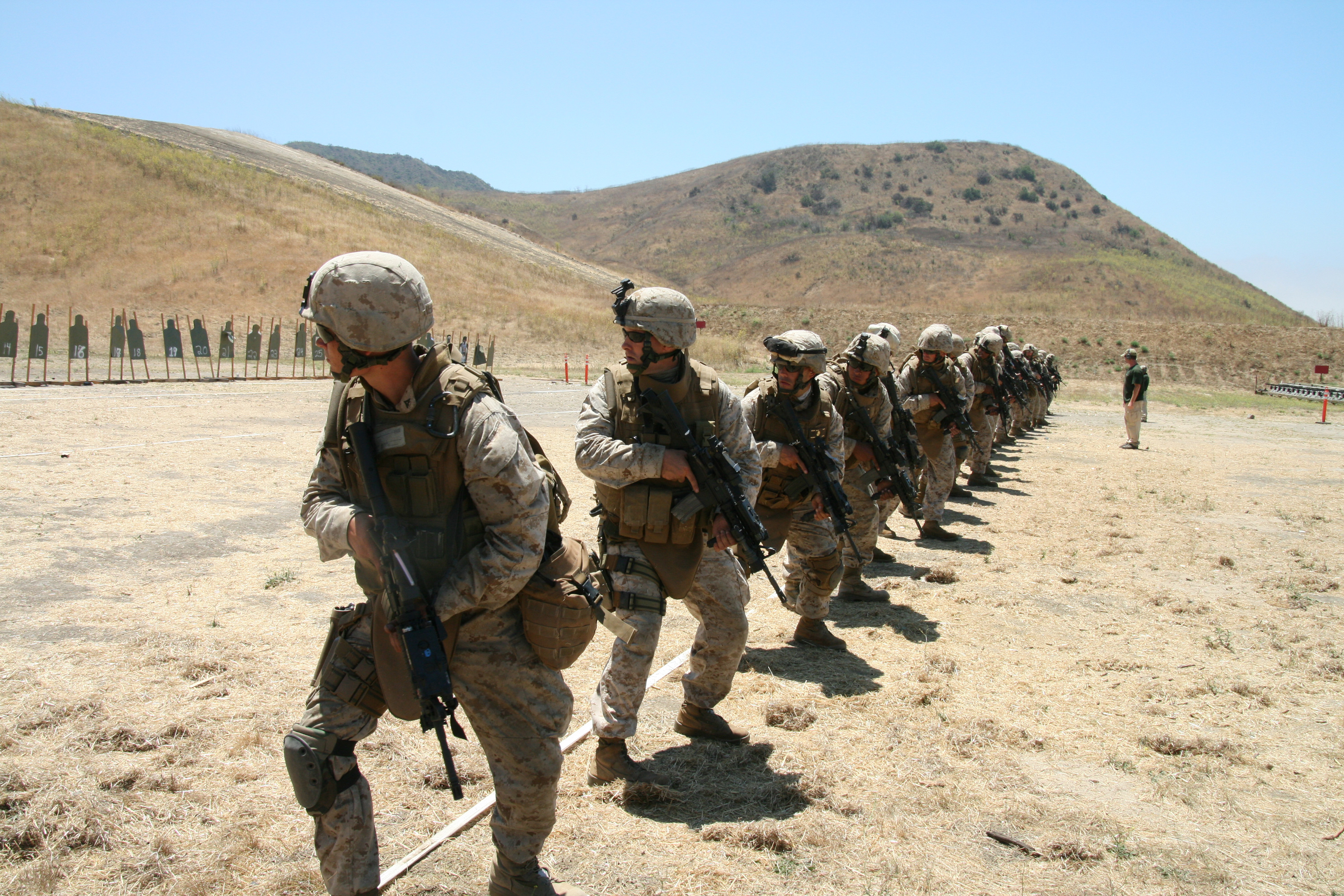 Reserve Marines from a 2nd Battalion, 25th Marine Regiment military transition team practice a "turn, pivot and shoot" technique at a live-fire small arms range aboard Camp Pendleton, Calif., Aug. 1.